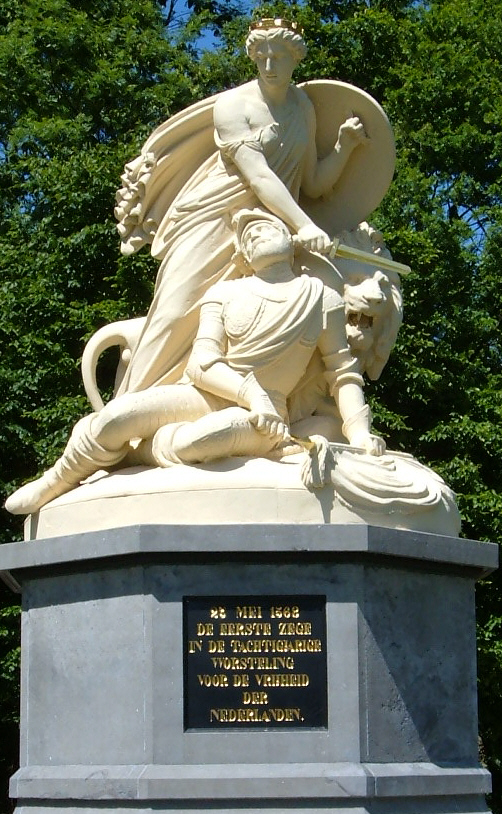 Monument for the Battle of Heiligerlee, the Netherlands (1568), of the Dutch against the Spanish, in wich Count Adolf fell.